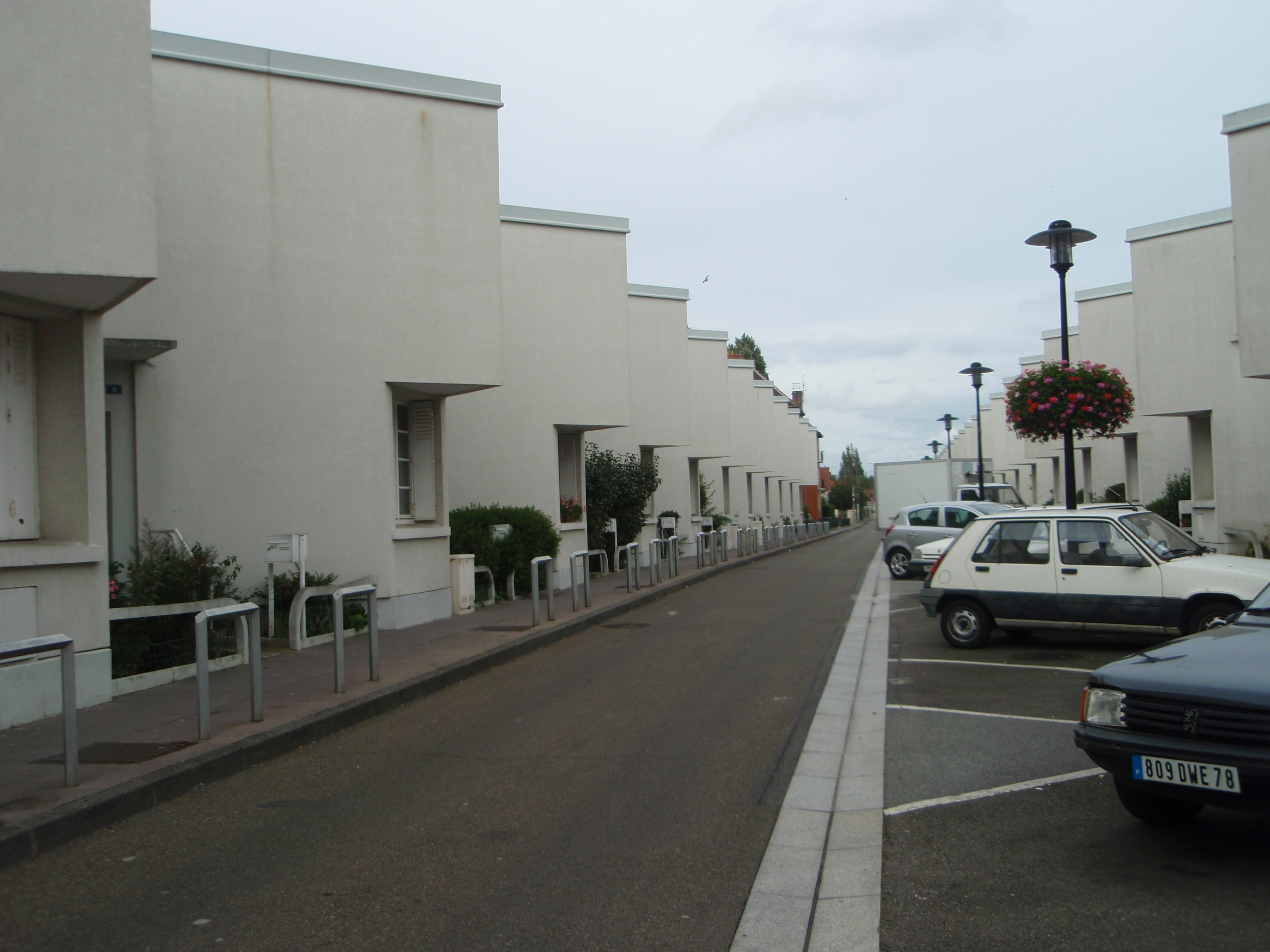 Cité les Dents de scie à Trappes en Yvelines